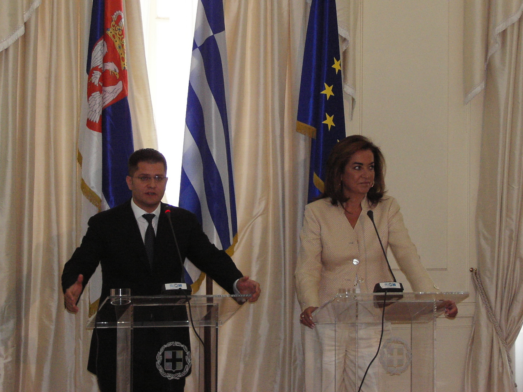 Dora Bakoyannis, Minister of Foreign Affairs of Greece and Vuk Jeremic, Minister of Foreign Affairs of Serbia meeting in Athens